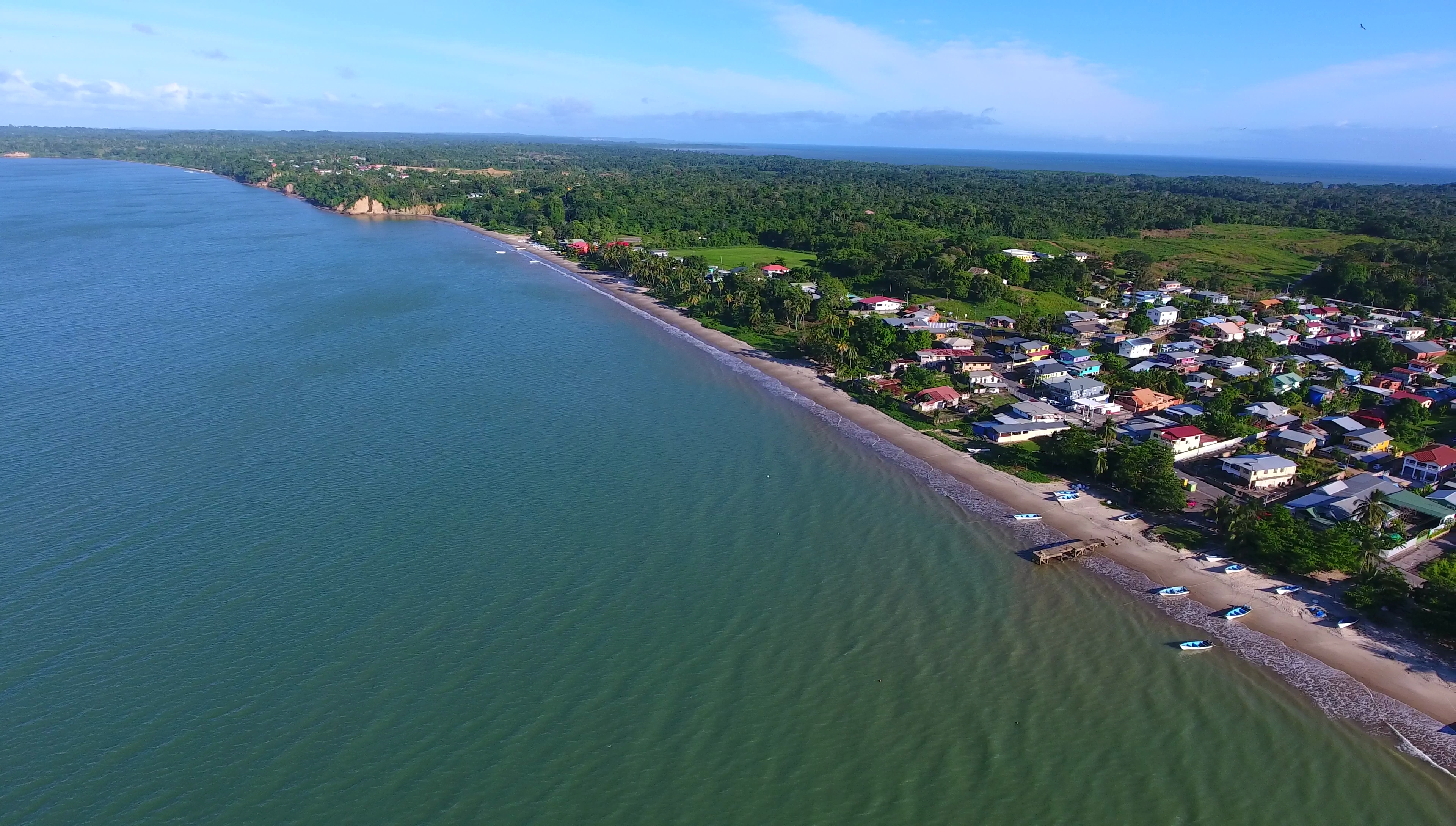 Cedros Bay, Gulf of Paria. Village: Cedros, Siparia, Trinidad and Tobago. Water body in the background: Islote Bay (Columbus Channel/Boca del Serpiente). Photo taken as part of the Southern Trinidad Aerial Photo Project, a small project sponsored by WMDE. Drone used: DJI Phantom 4. Snapshot taken from video footage via VLC.